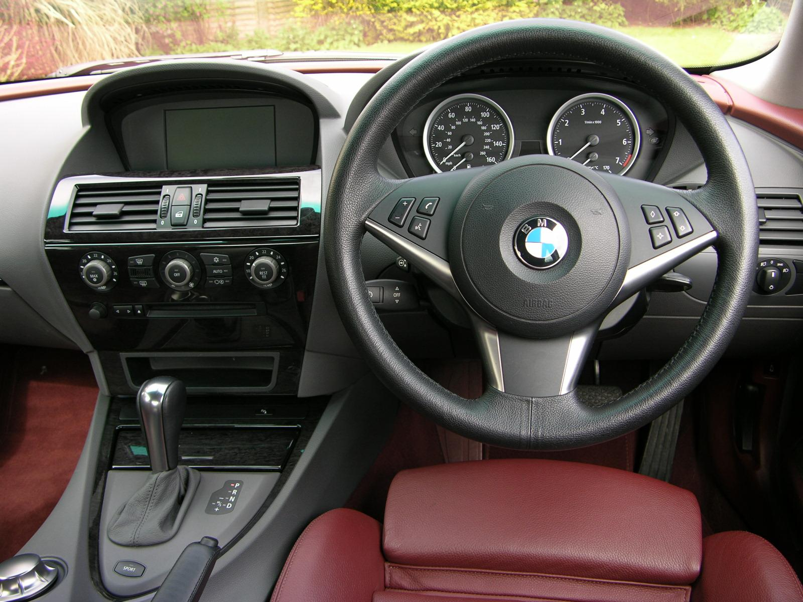 2004 BMW 645Ci Sport